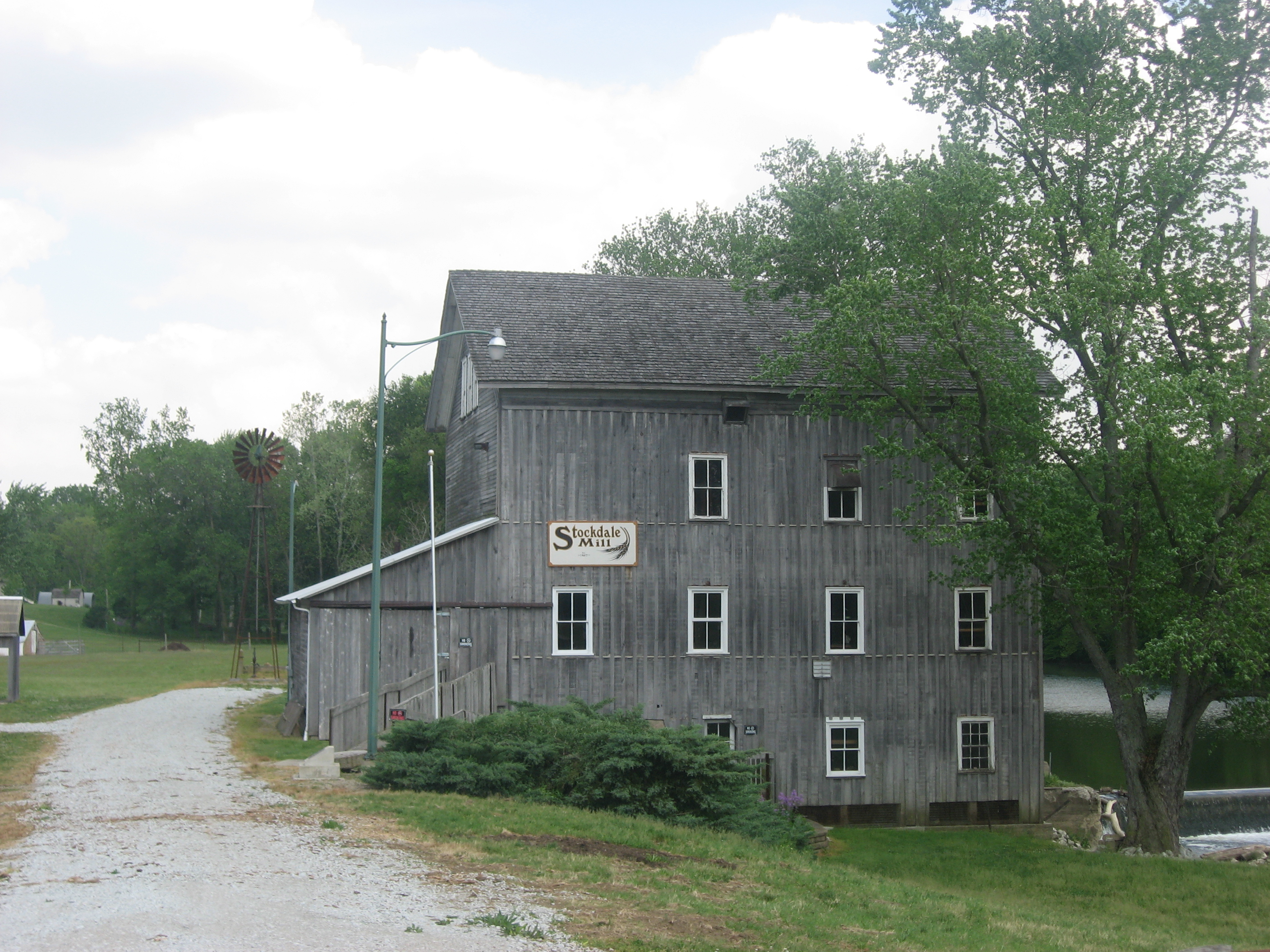 Western side of the Stockdale Mill, located on the eastern side of County Road N800W at Stockdale in Paw Paw Township, Wabash County, Indiana, United States. Built in 1855, it is listed on the National Register of Historic Places.